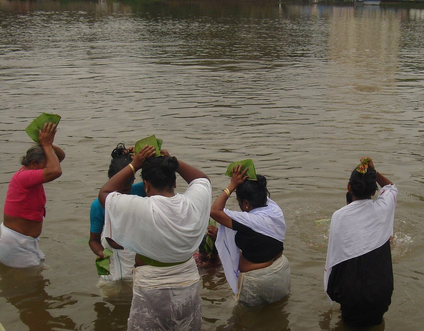 Vavubali : Its a mark of respect to the departed souls. The day in the Malayalam month 'Karkkidakam' ,usually comes in the month of july or Augest, is specially dedicated for the departed souls. The ritual was held on the premises of Mahadeva Temple at Aluva Manappuram, Ernakulam, Kerala,India... Significant presence of women also in this ritual..